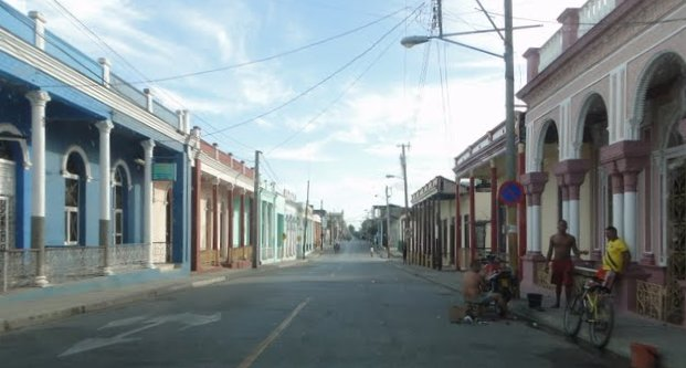 Calixto García entre Narciso López y Paseo, Guantánamo, Cuba. NOT in front of the Post Office